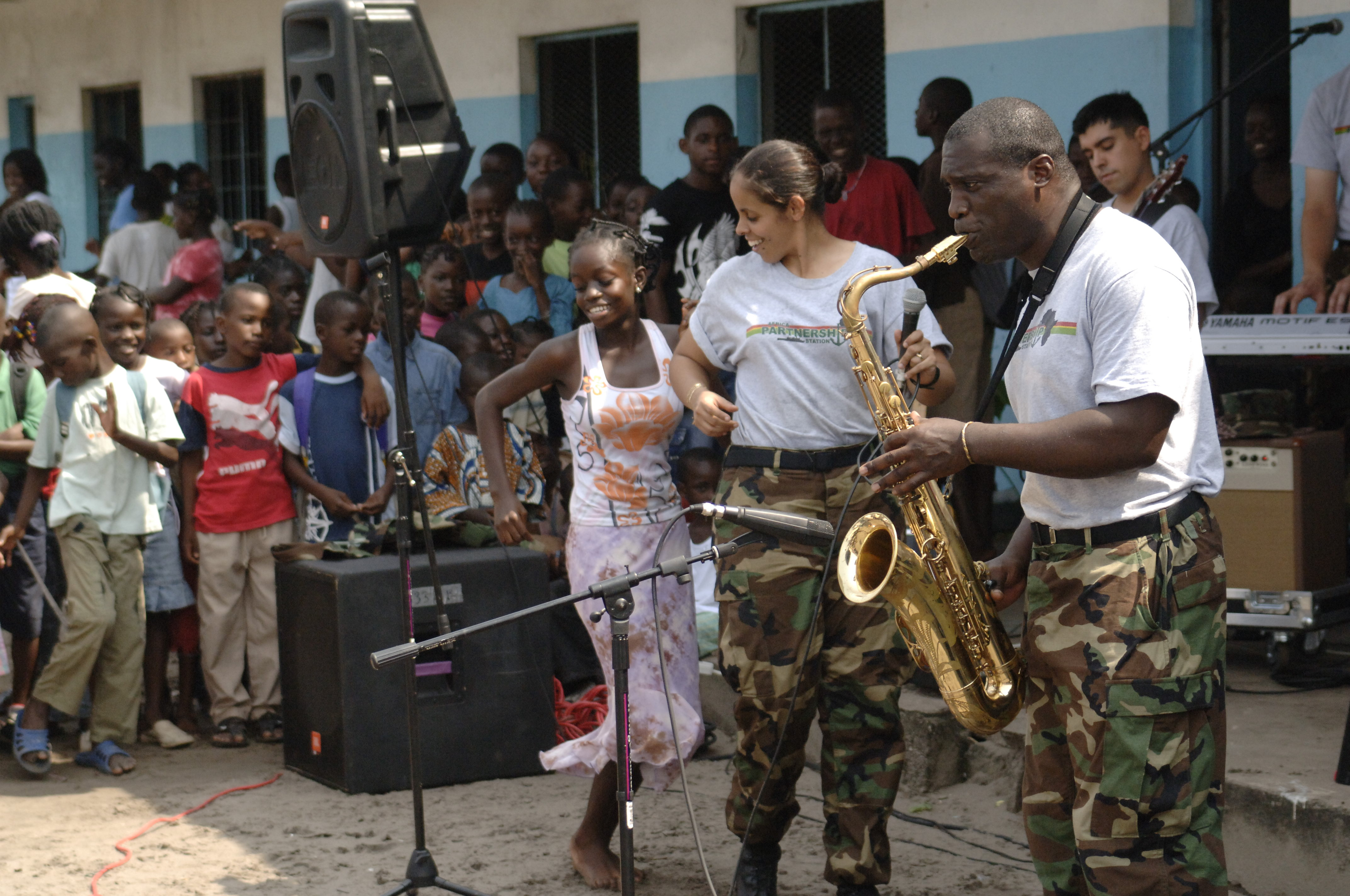 PORT GENTILE, Gabon (Jan. 16, 2008) A student from Belise Elementary School dances to music from members of the Africa Partnership Station (APS) band. The APS band, assigned to Commander, U.S. Naval Forces Europe, is based in Naples, Italy, and plays at various community engagements throughout the country. APS is an international effort to enhance regional and maritime partnerships in West and Central Africa. U.S. Navy photo by Chief Mass Communication Specialist Jason Morris (Released)